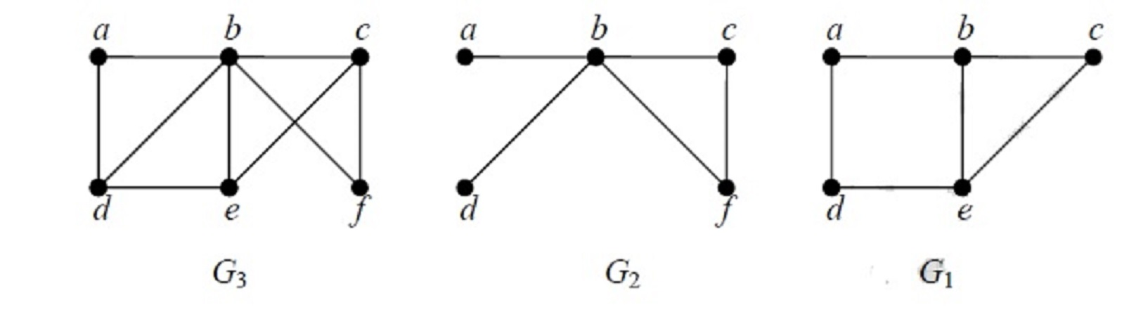 consensus of tow graph